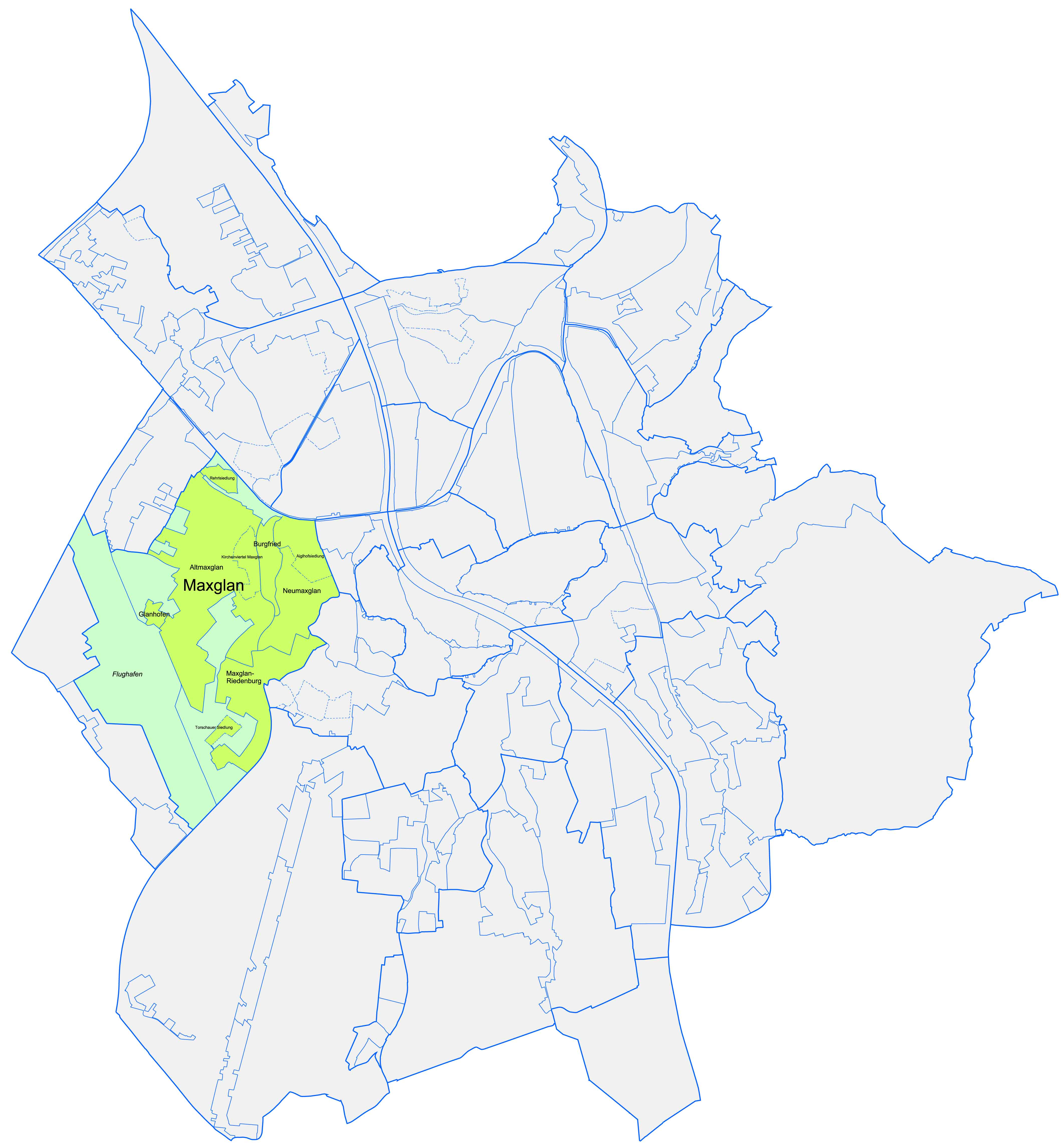 a quarter of the town of Salzburg: Maxglan